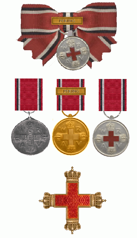 Red Cross Medal of Prussia